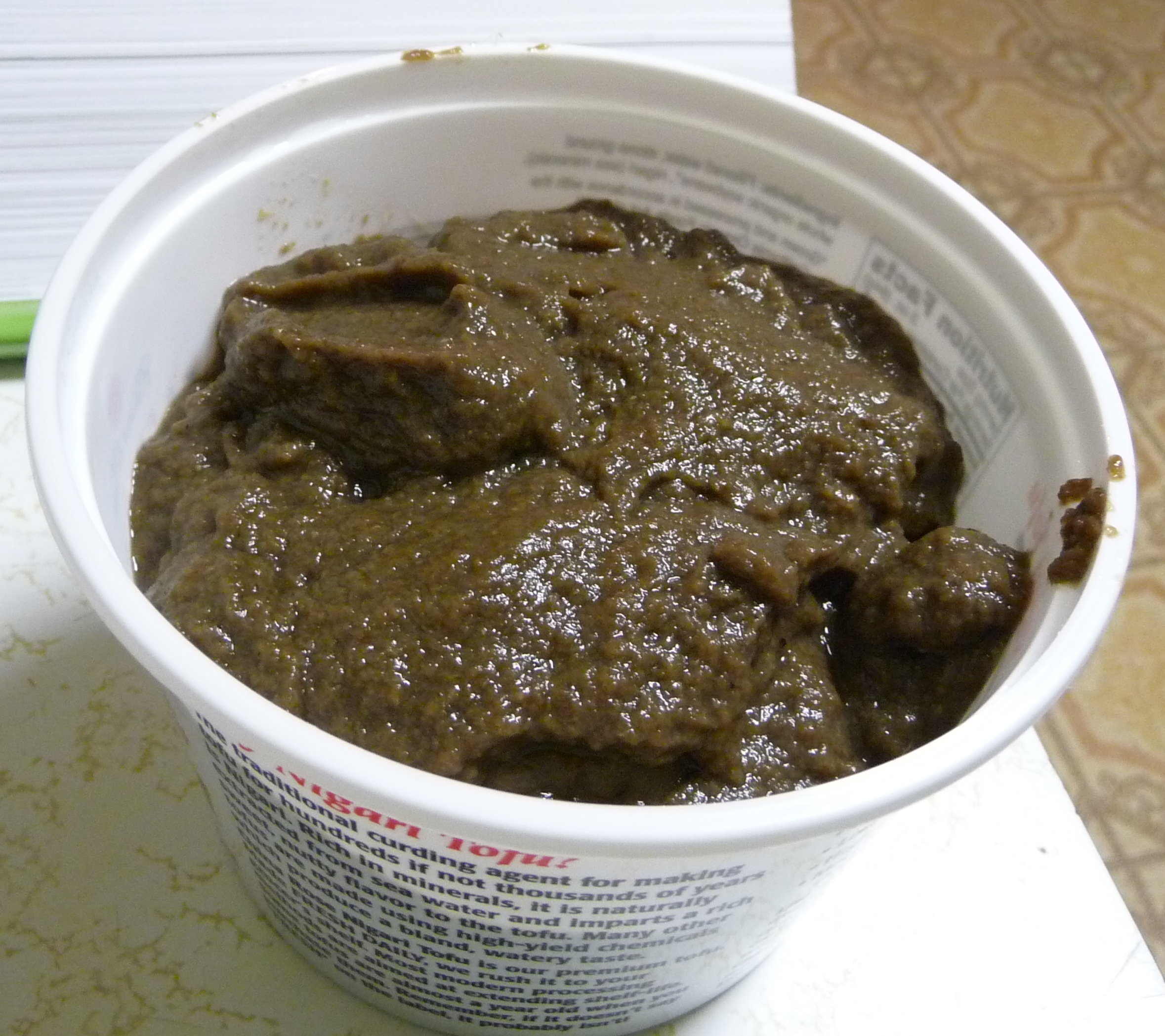 Homemade mushroom ketchup: this is good, but at first taste it is a bit too salty. For some inexplicable reason I put in %50 more salt than it called for when I was starting the marinade.